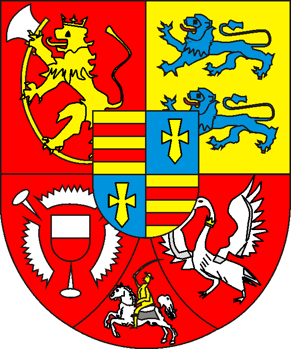 Coat of arms of dukes of Schleswig-Holstein